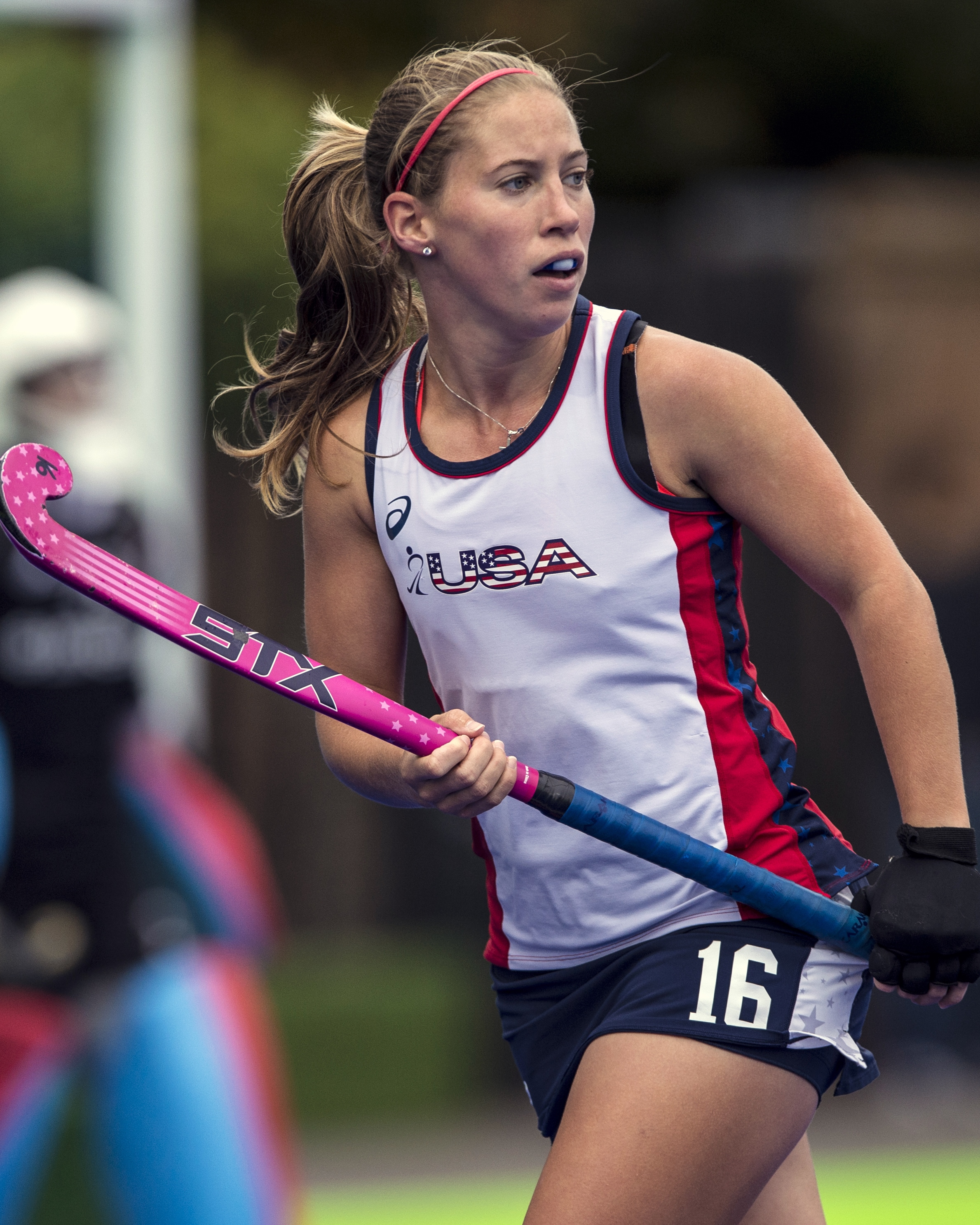 Katie Bam competes for USA Field Hockey